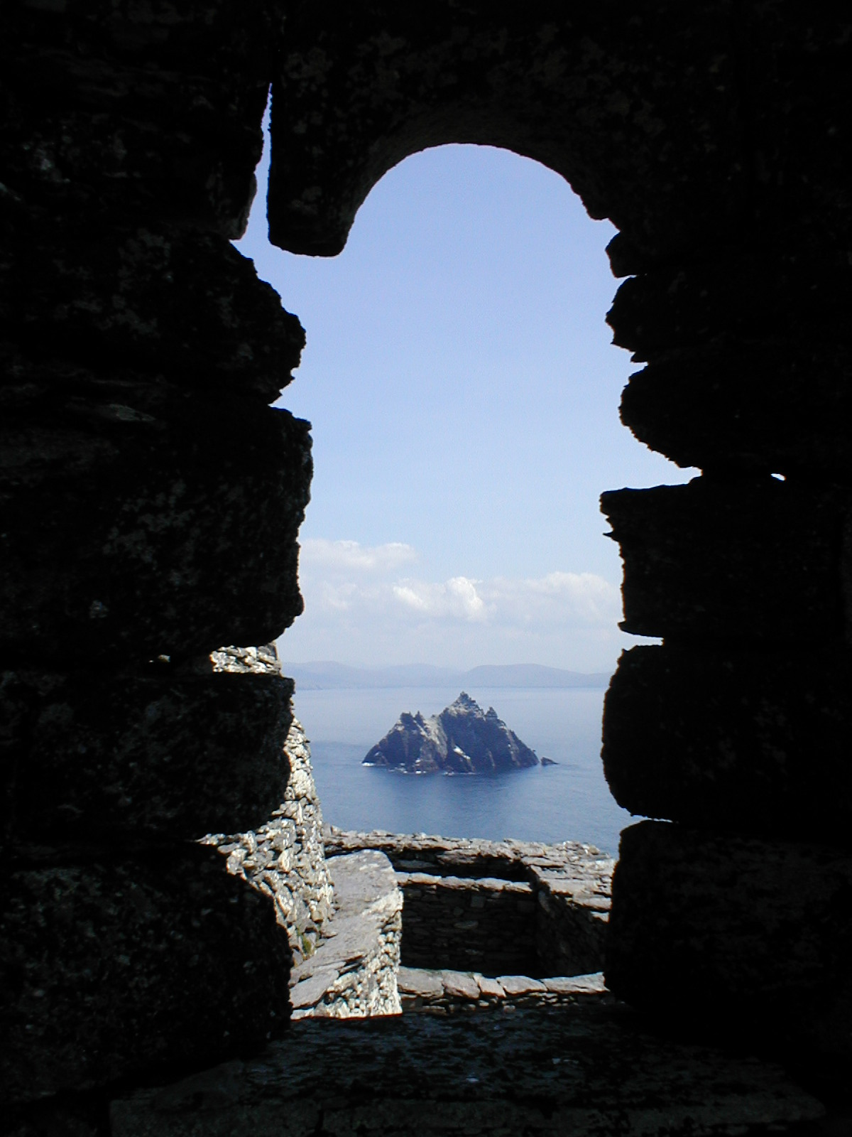 Little Skellig seen through a window of the hermitage of Skellig Michael, Ireland Renamed version. Original uploaded as Image:P1010230.JPG on 23:10, 10. Jun. 2007 by Dagmar